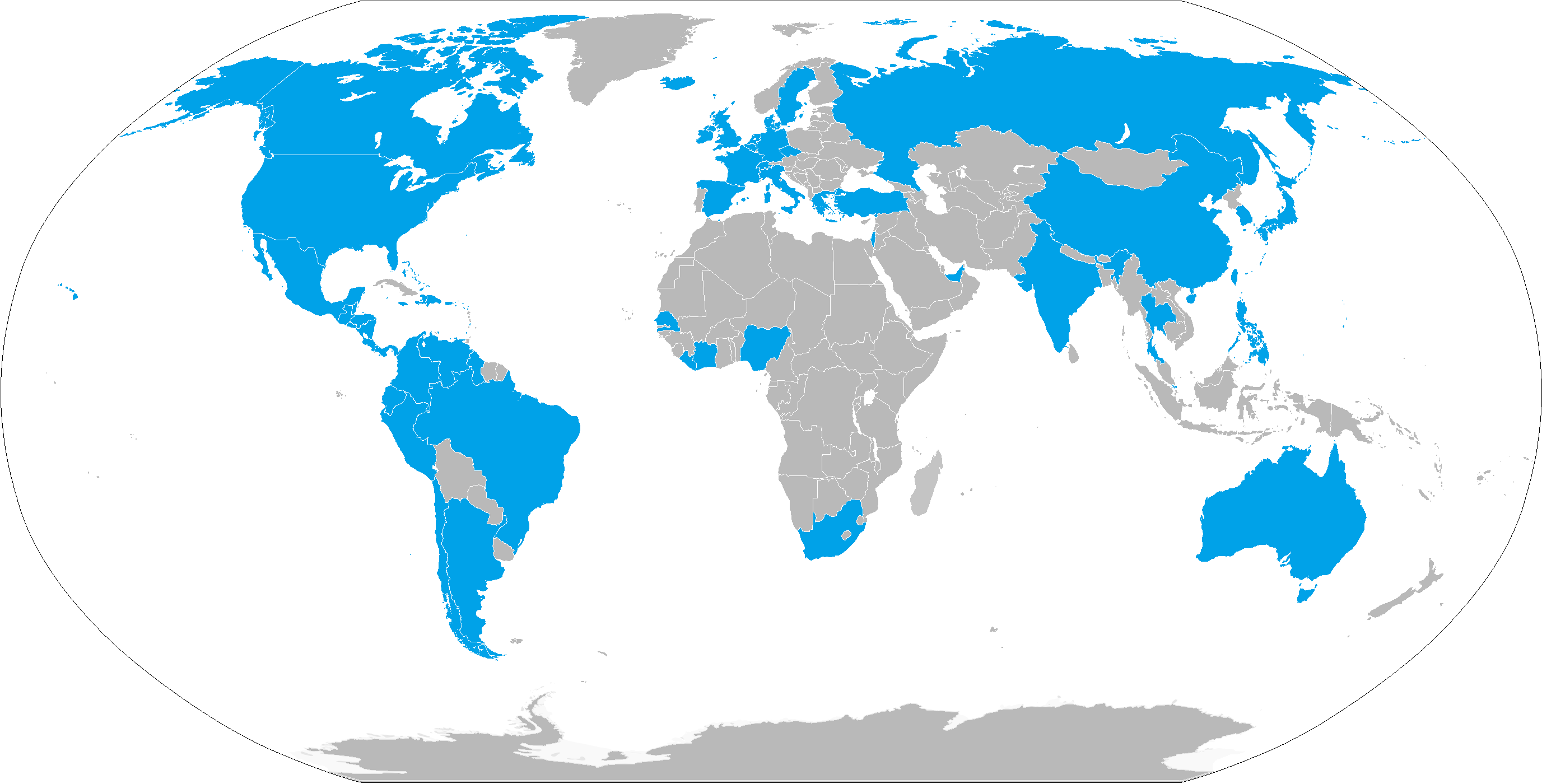 delta airlines destinations